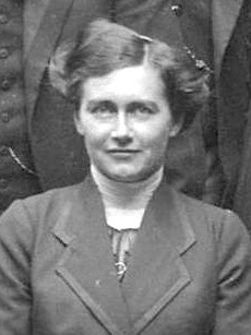 Emma Jung (born Emma Rauschenbach; 30 March 1882 – 27 November 1955) was a psychotherapist and author. She was the wife of Carl Gustav Jung, the prominent psychiatrist and founder of Analytical psychology. This crop of a larger image is from 1911. It is not the highest resolution, but provided for historical reasons.